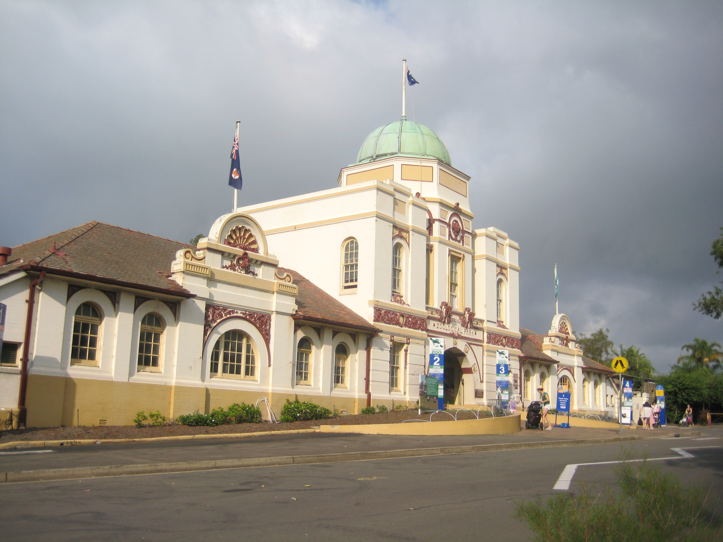 Taronga Zoo Entrance Building